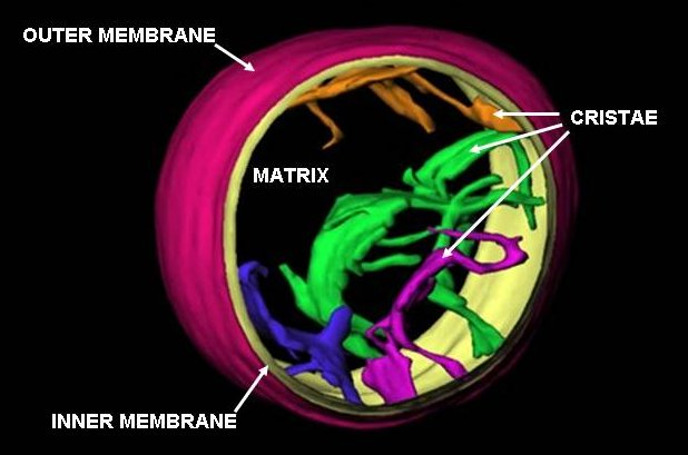 This is an image of a frozen-hydrated rat liver mitochondrion based on work done at the Wadsworth Center's Resource for Visualization of Biological Complexity ( It has not been previously published and I am releasing it into public domain for this article. The point is that the cristae are not folds of the inner membrane of the mitochondrion but pleomorphic invaginations with narrow tubular connections to each other and to the peripheral region of the inner membrane. I can advise on how to change your cartoon to be more accurate, while still retaining the basic format. There are numerous published references in last 10 years, the most recent: C.A. Mannella (2006) Biophysica et Biochimica Acta 1762: 140-147